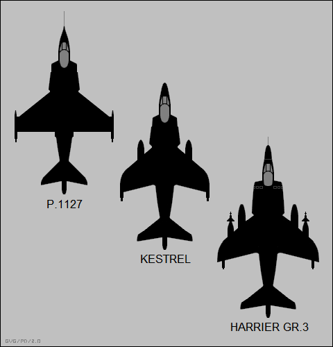 Plan-view silhouettes of the Hawker P.1127, Kestrel FGA.1, and Harrier GR.3